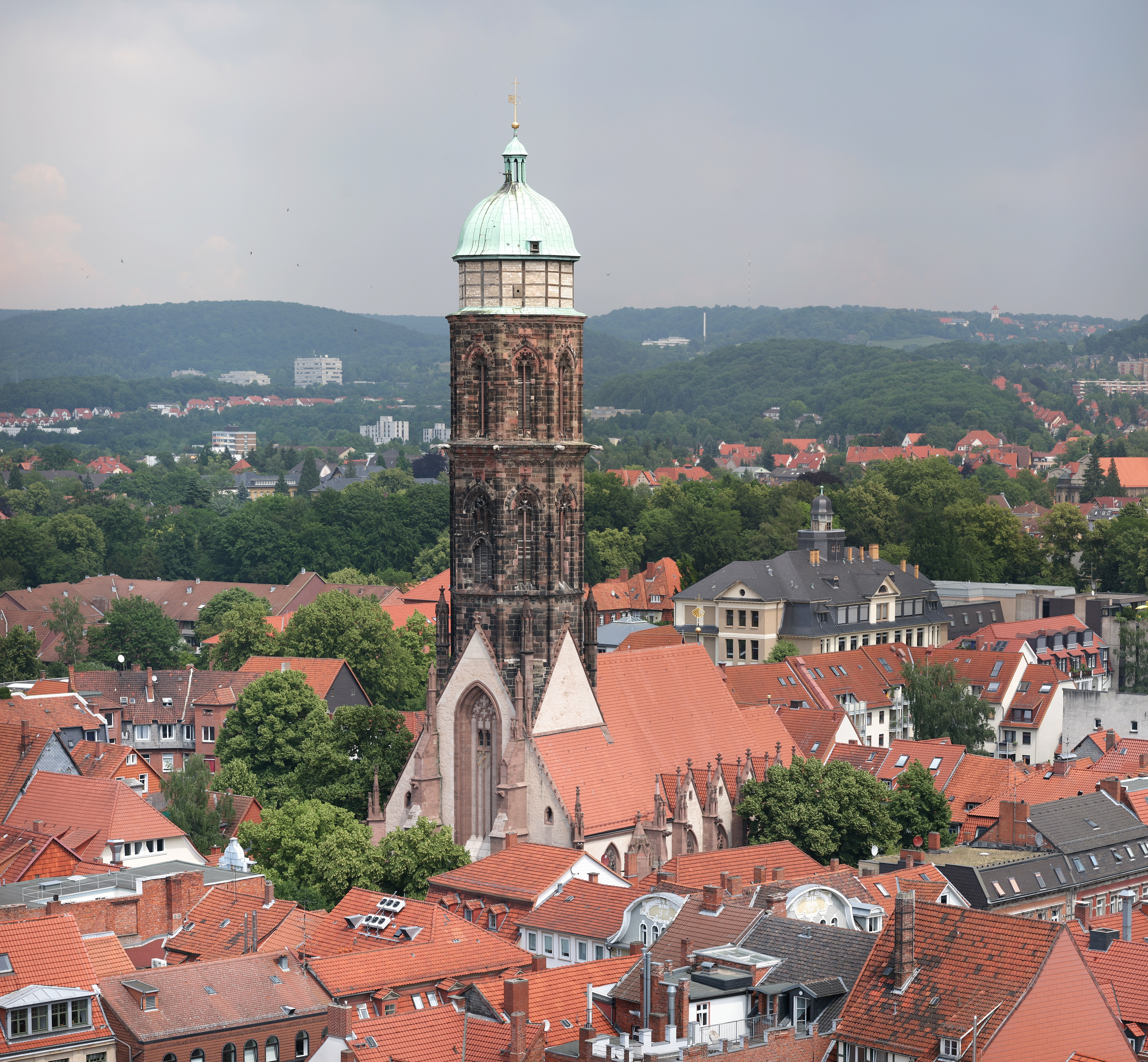 St. Jacobi Church as seen from the tower of St. Johannis Church, Göttingen, Germany This image was created with Hugin.